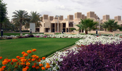 Qatar University